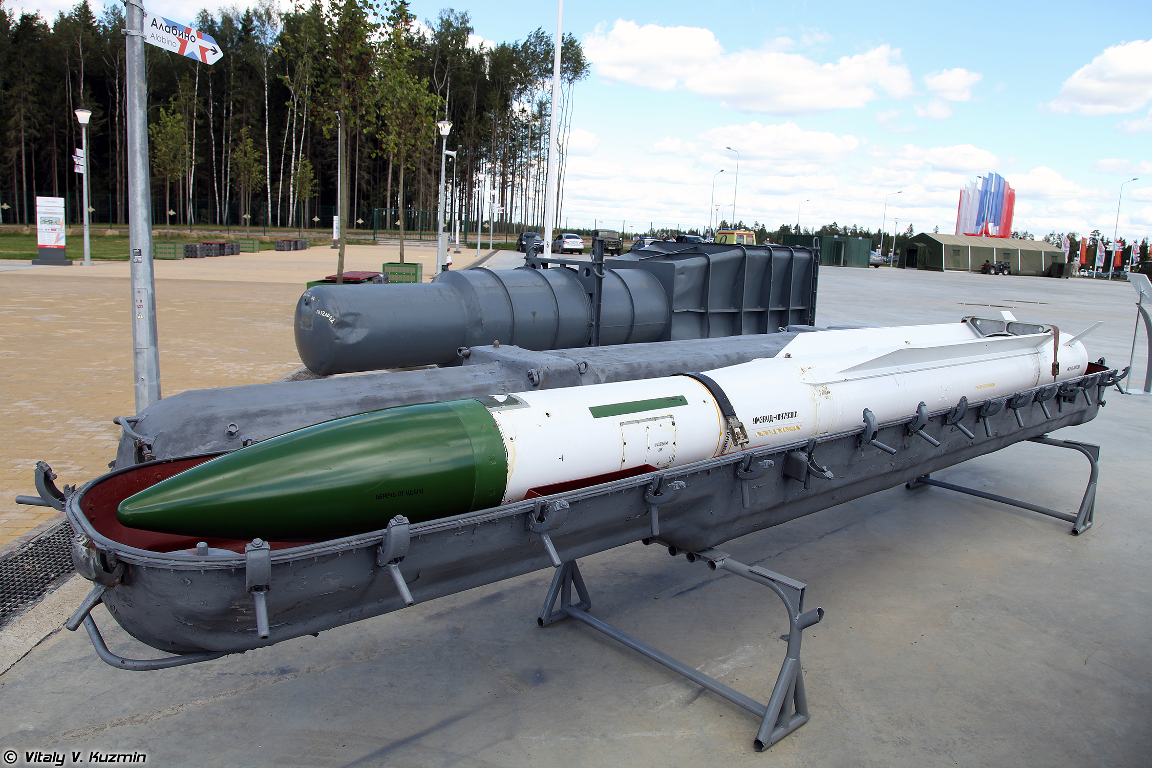 9M38UD surface-to-air missile